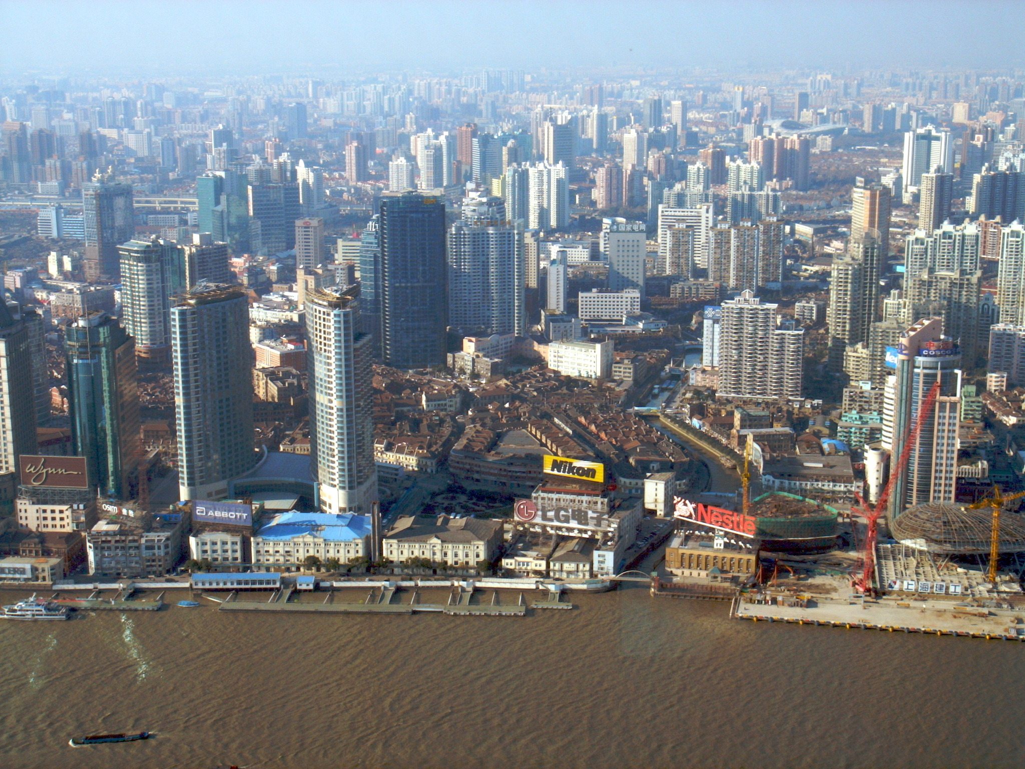 View of the Bund, from the Oriental Pearl